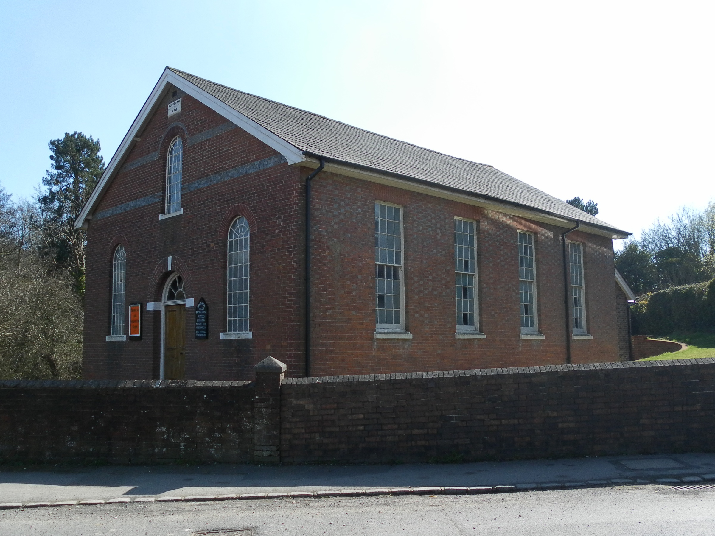 Rehoboth Strict Baptist Chapel, Jarvis Brook, Crowborough, Wealden District, East Sussex, England. Built in 1876